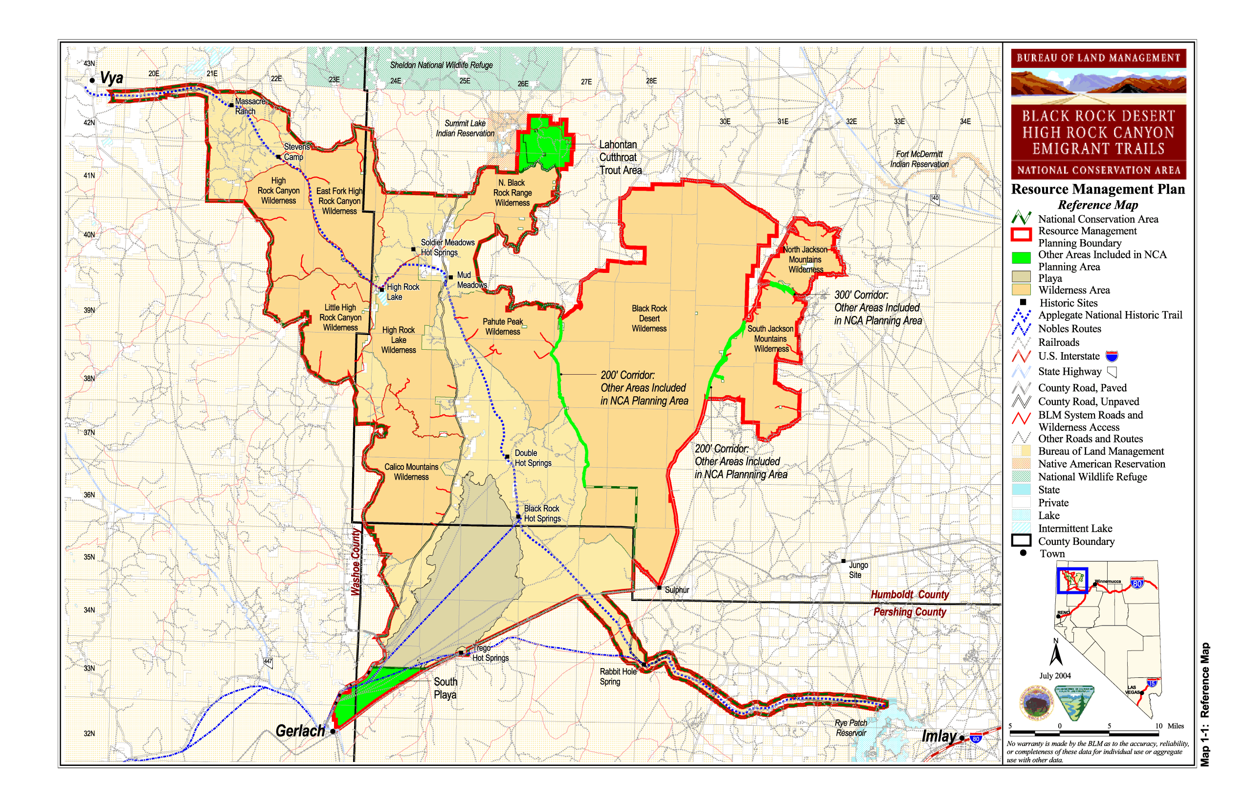 Map of the Black Rock Desert-High Rock Canyon Emigrant Trails National Conservation Area — in Nevada. A BLM Resource Management Plan Reference Map for the Black Rock Desert conservation area.